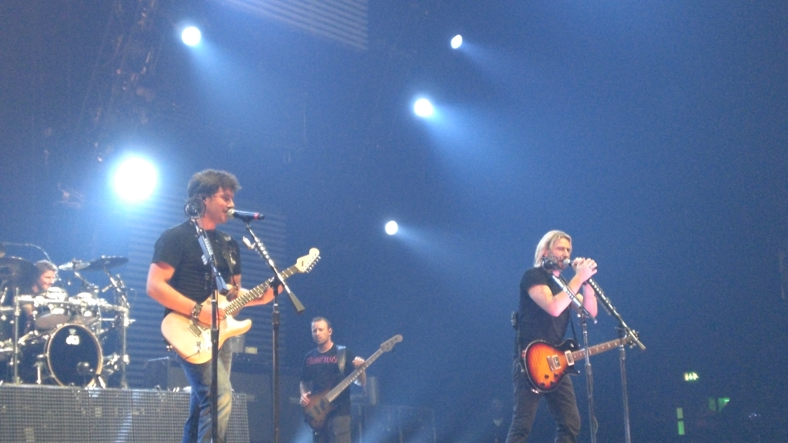 Nickelback (L to R, Daniel Adair; Ryan Peake; Mike Kroeger; Chad Kroeger) on stage at Wembley Arena, London, September 2008.